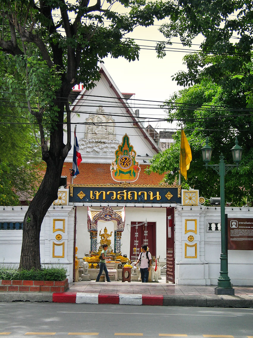 Devasathan, Brahmin Shrine, Phra Nakhon district, Bangkok, Thailand.